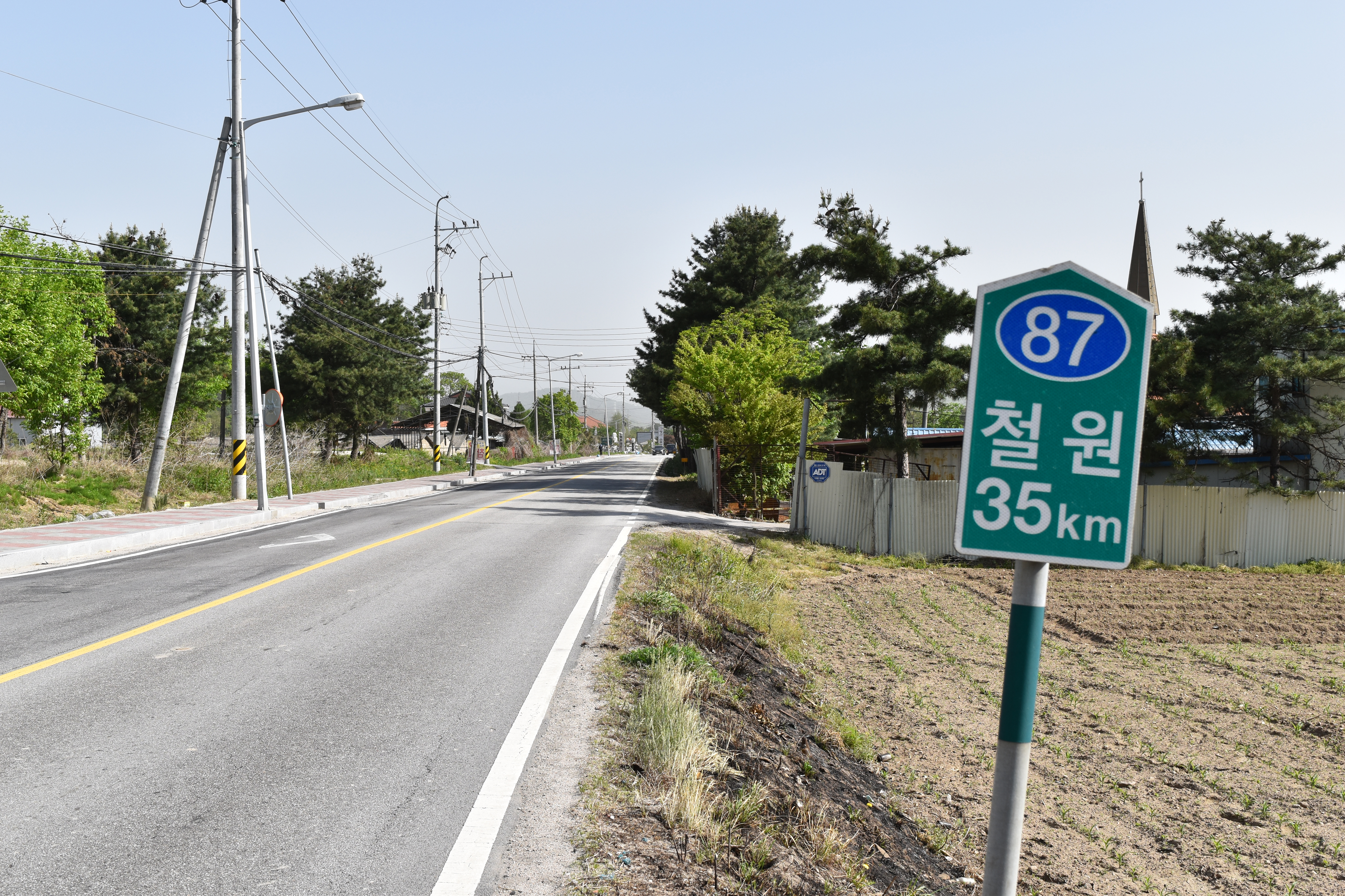 Korean Natioal Road Number 87 at the point to distance 37 km from Cheolwon